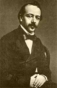 photograph of Karl Ludwig Büchner (1827 – 1904)